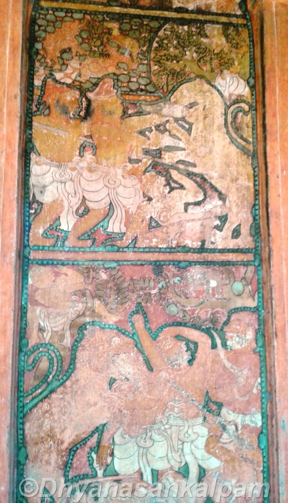 തൊടീക്കളം ചിത്രങ്ങൾ-വേട്ടശാസ്തവ്